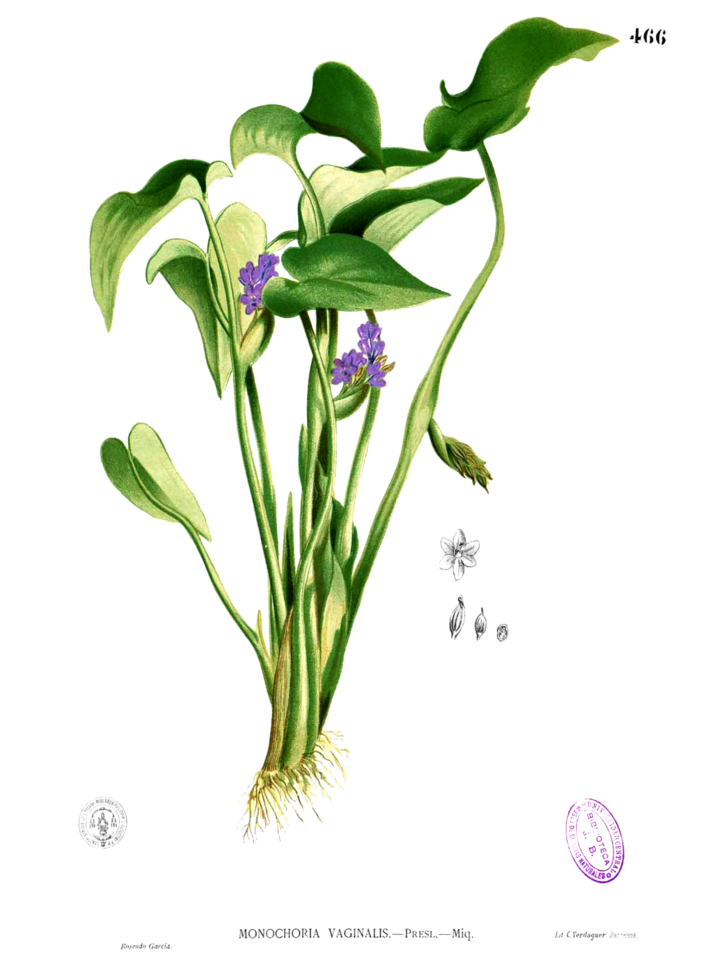 Monochoria vaginalis, Plate from book